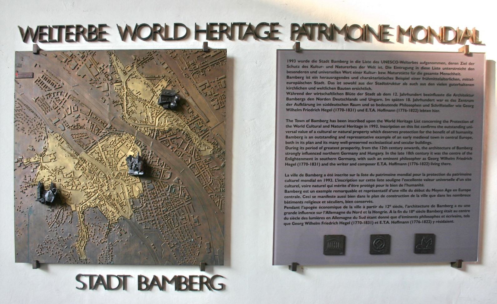 The Town of Bamberg has been inscribed on the World Heritage List concerning the Protection of the World Cultural and Natural Heritage in 1993. Inscription on this list confirms the outstanding universal value of a cultural or natural property which deserves protection for the benefit of all humanity. Bamberg is an outstanding and representative example of an early medieval town in central Europe, both in its plan and its many well-preserved ecclesiastical and secular buildings.During its period of greatest prosperity, from the 12th century onwards, the architecture of Bamberg strongly influenced northern Germany and Hungary. In the late 18th century it was the center of the enlightenment in southern Germany, with such an eminent philosopher as Georg Wilhelm Friedrich Hegel and the writer and composer E.T.A. Hoffmann living there.